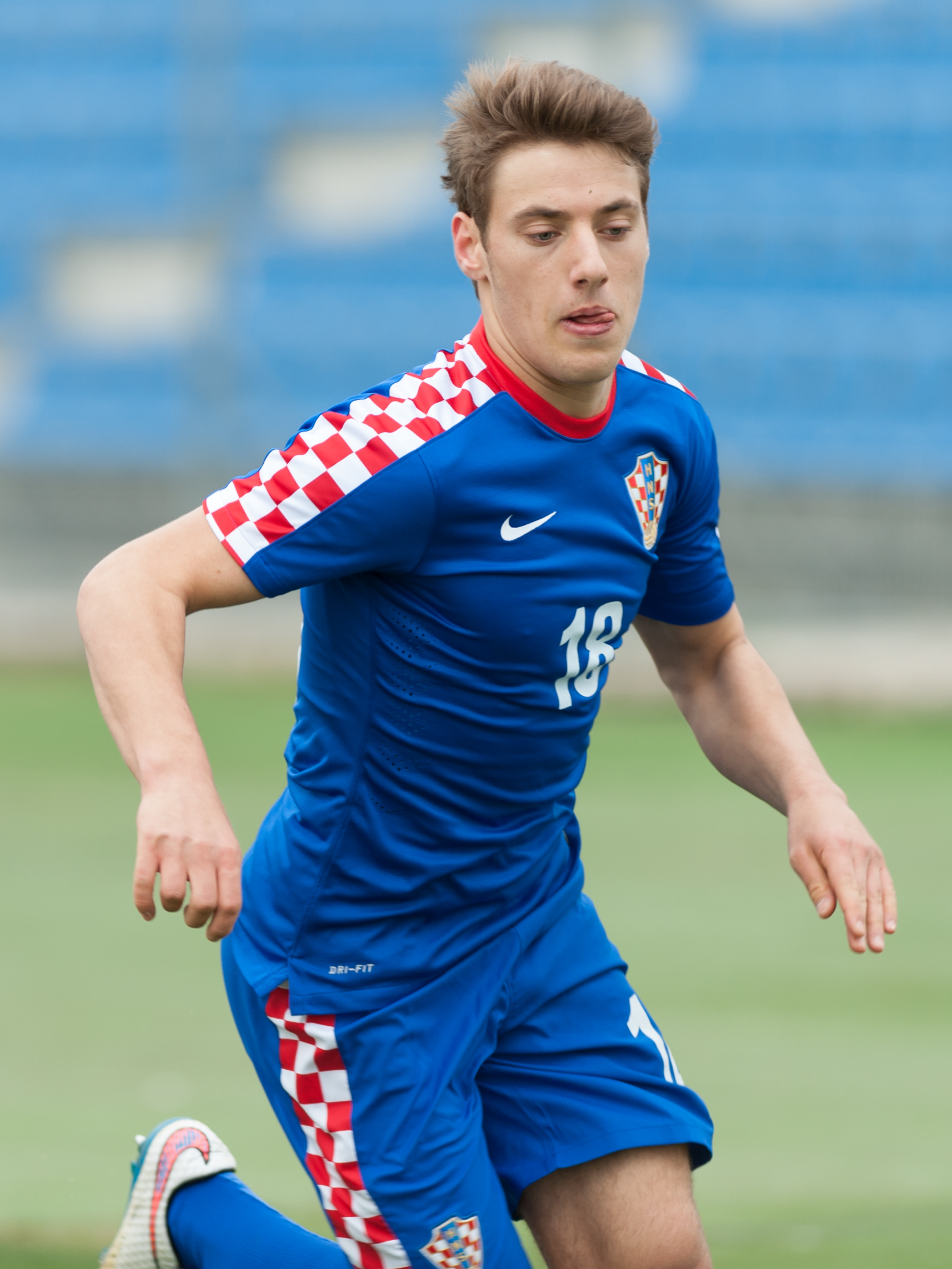 European Under-19 Championships 2015 Elite Round, Austria vs. Croatia, 28/03/2015 Wiener Neustadt, Lower Austria